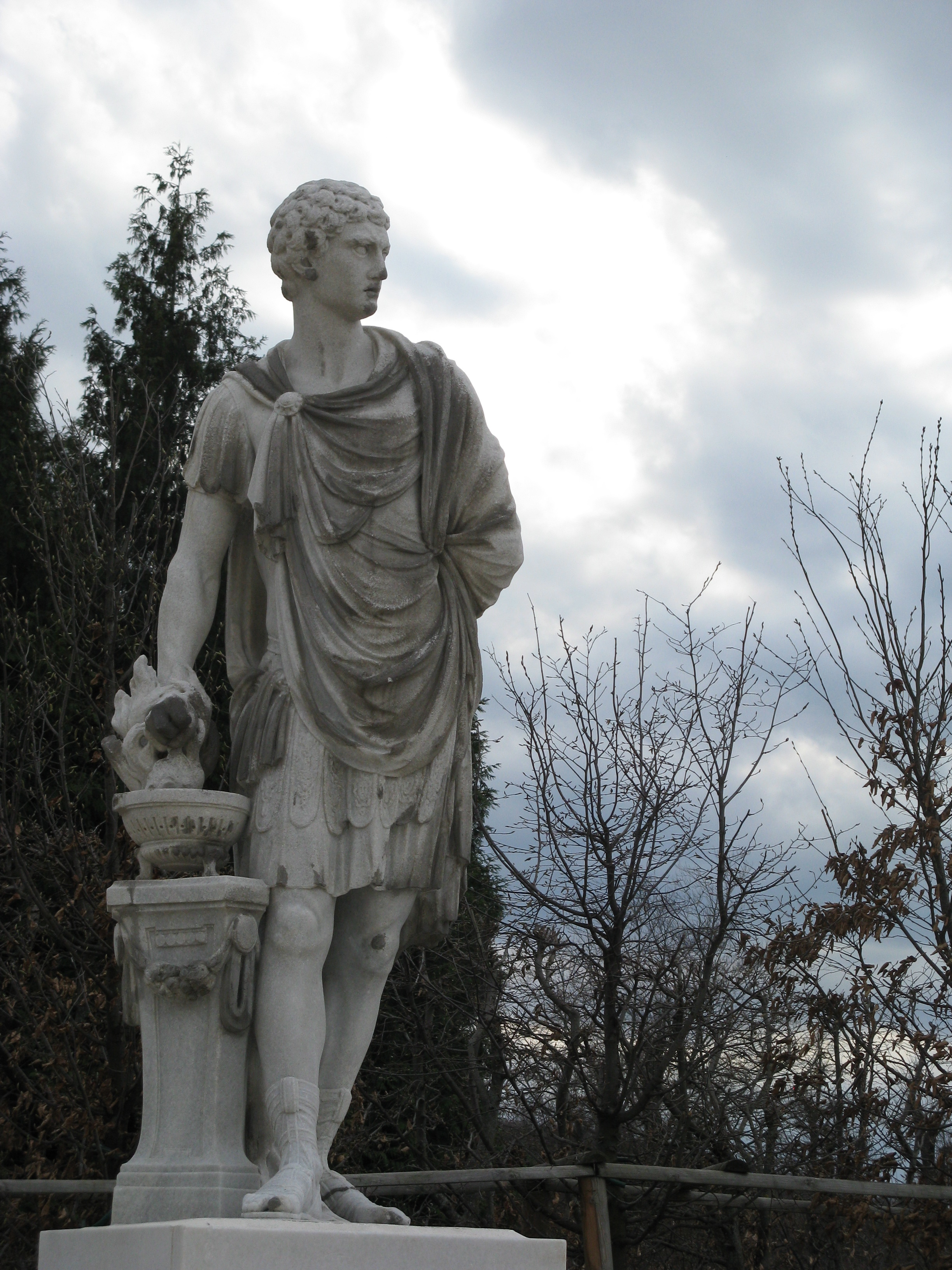 Vienna, Schönbrunn gardens, statue Mucius Scaevola